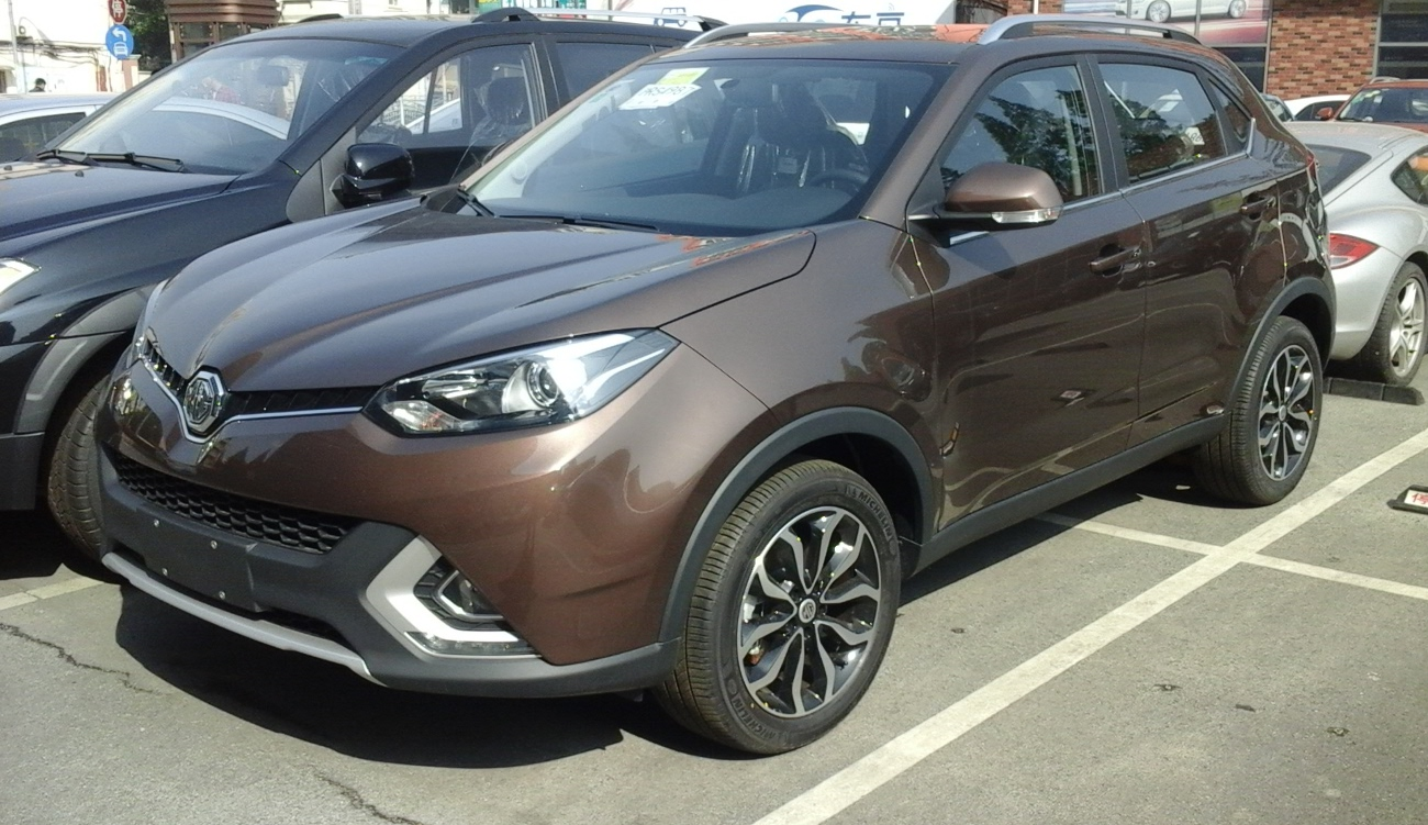 MG GS photographed in Shanghai, China.